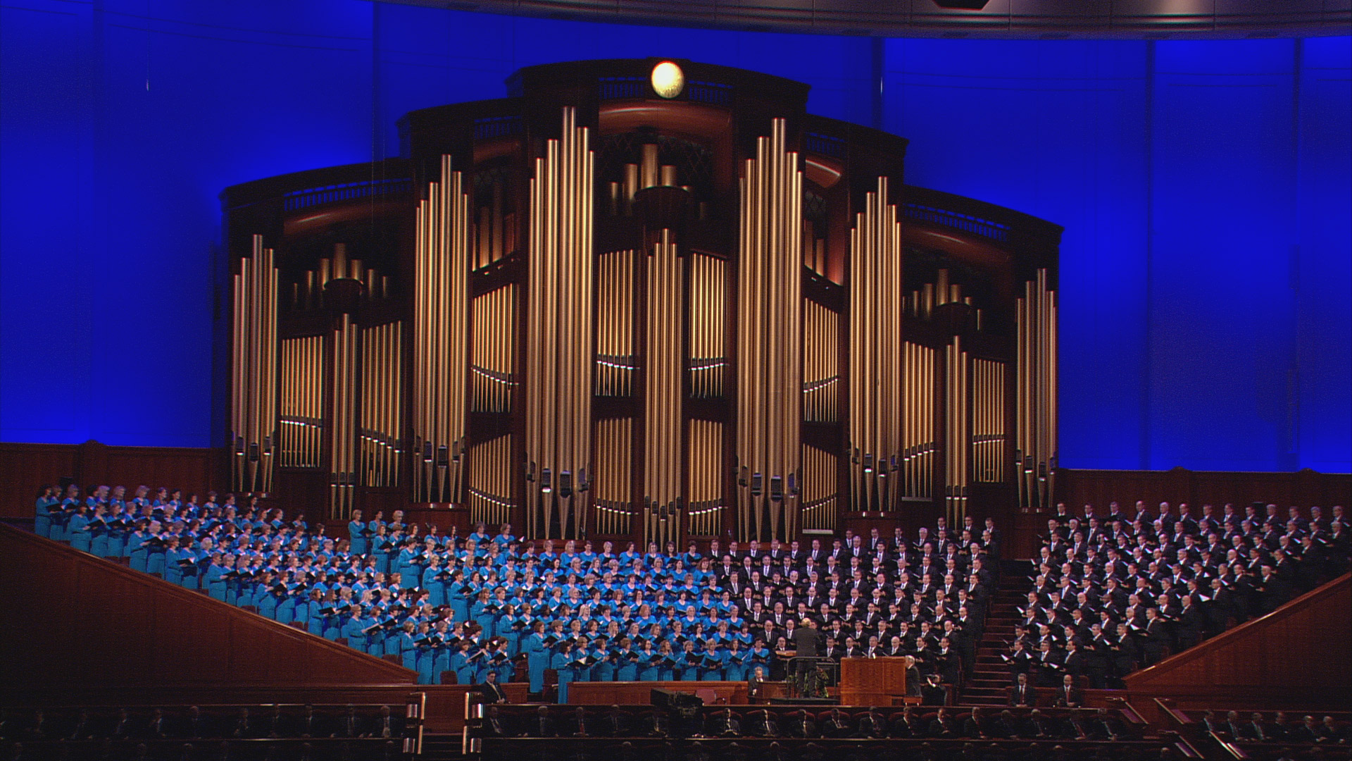 The Mormon Tabernacle Choir in the Conference Center, during the Sunday morning session of the April 2009 General Conference of The Church of Jesus Christ of Latter-day Saints.